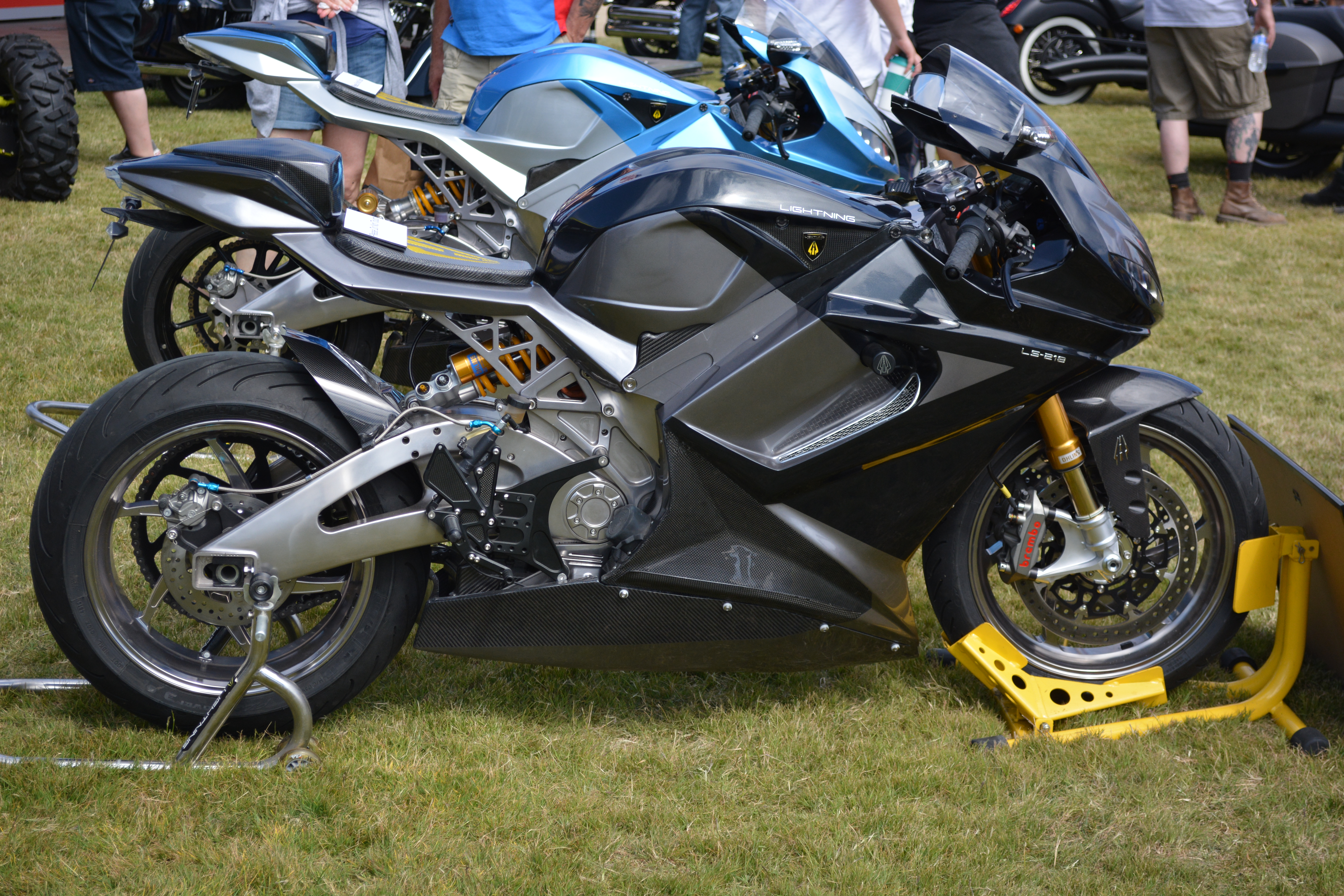 SBK FIM Superbike World Championship 2015 SBK FIM Superbike World Championship 2015